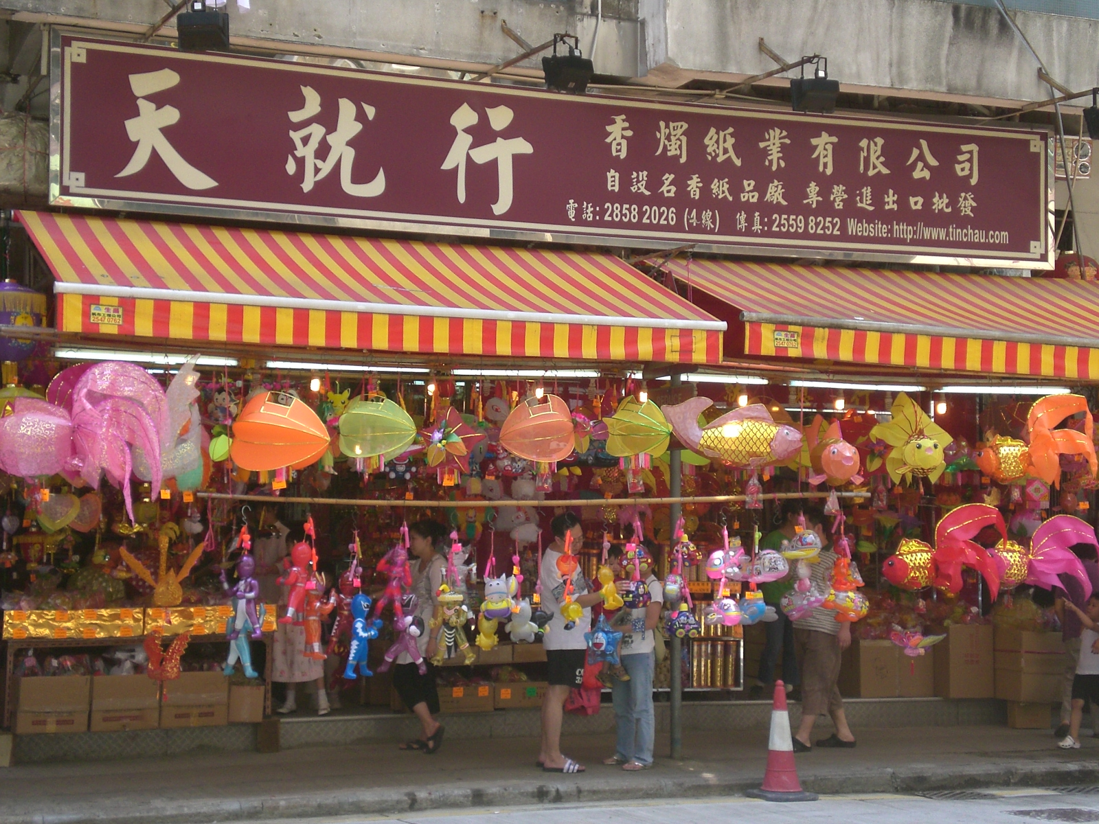 zh-yue:紙紮鋪 @ 西環皇后大道西